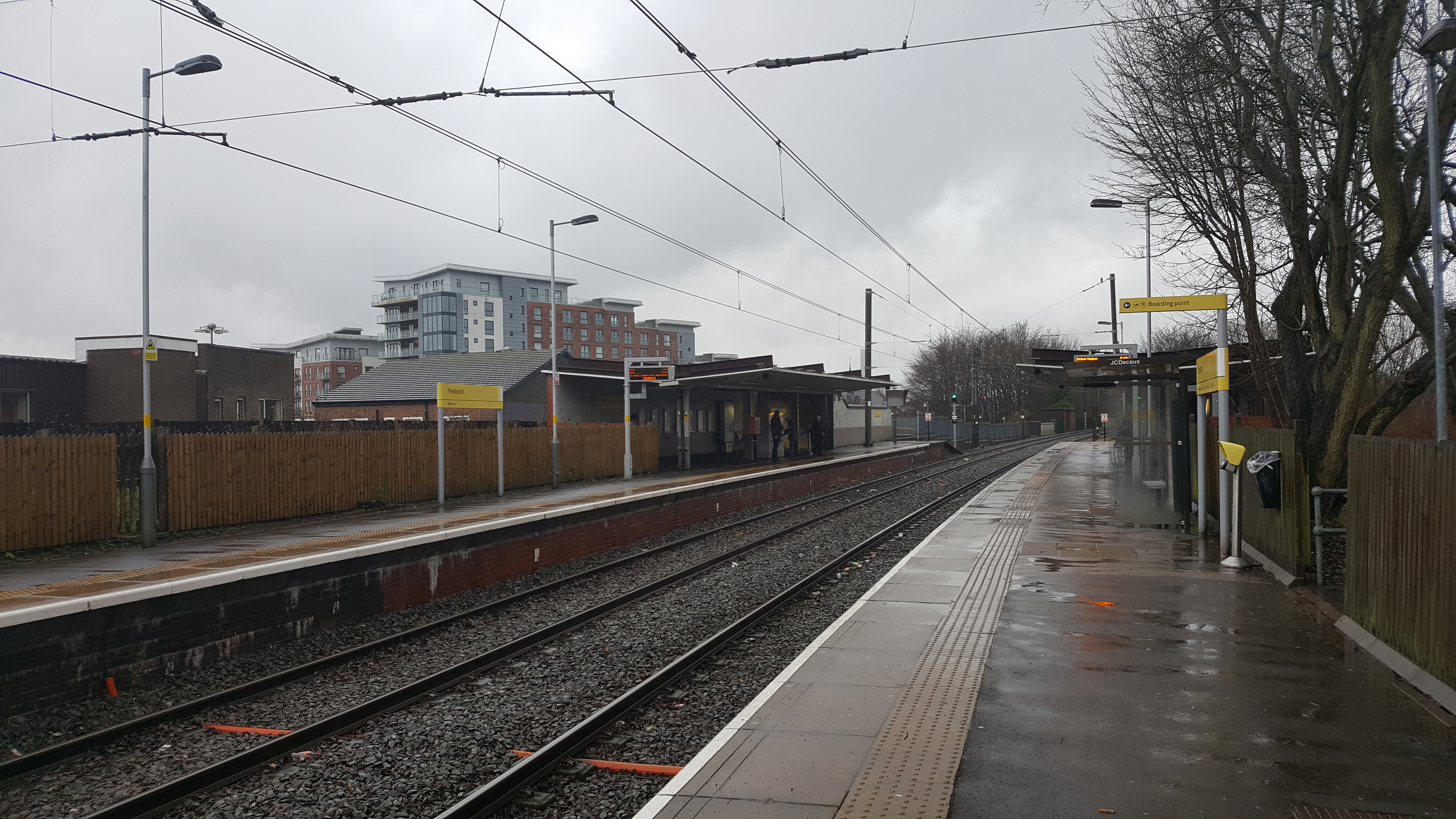 Prestwich tram station looking North.